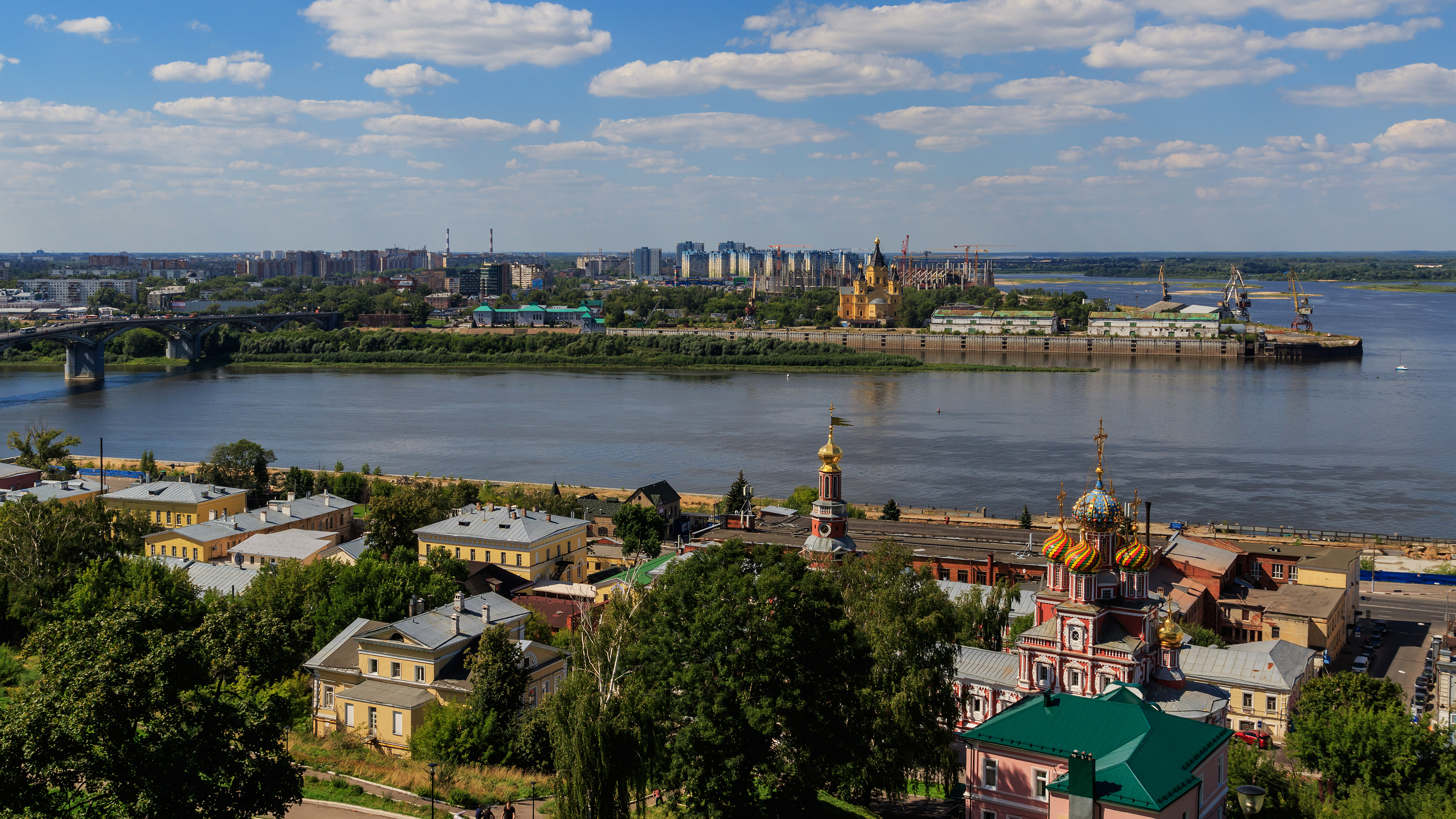 View of the Oka/Volga confluence from Fedorovskogo Embankment in Nizhny Novgorod, Russia